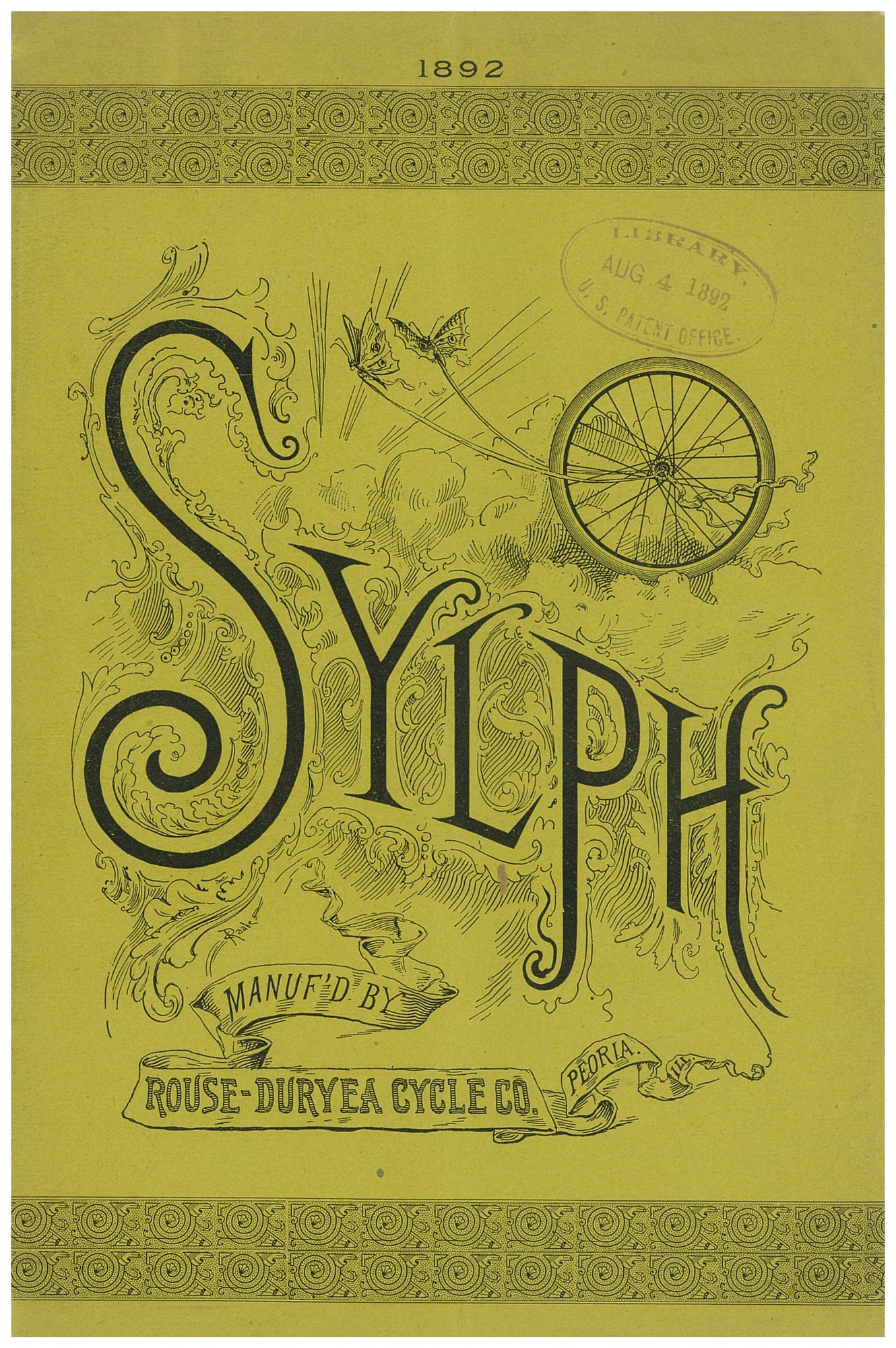 Sylph Bicycle Brand Advertisement; front cover. By: Rouse-Duryea Cycle Co. 1892. Page or plate